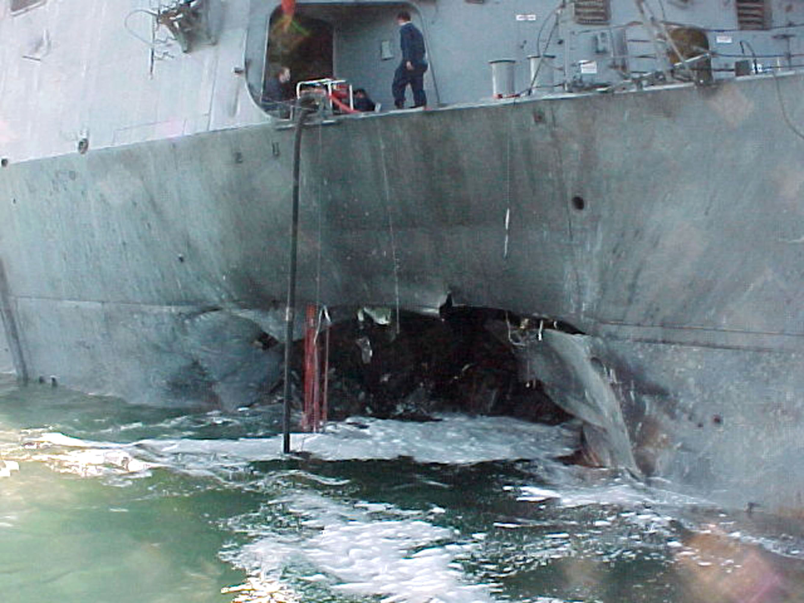 Port side view showing the damage sustained by the Arleigh Burke class guided missile destroyer USS Cole (DDG 67) on October 12, 2000, after a suspected terrorist bomb exploded during a refueling operation in the port of Aden, Yemen. USS Cole is on a regular scheduled six-month deployment.